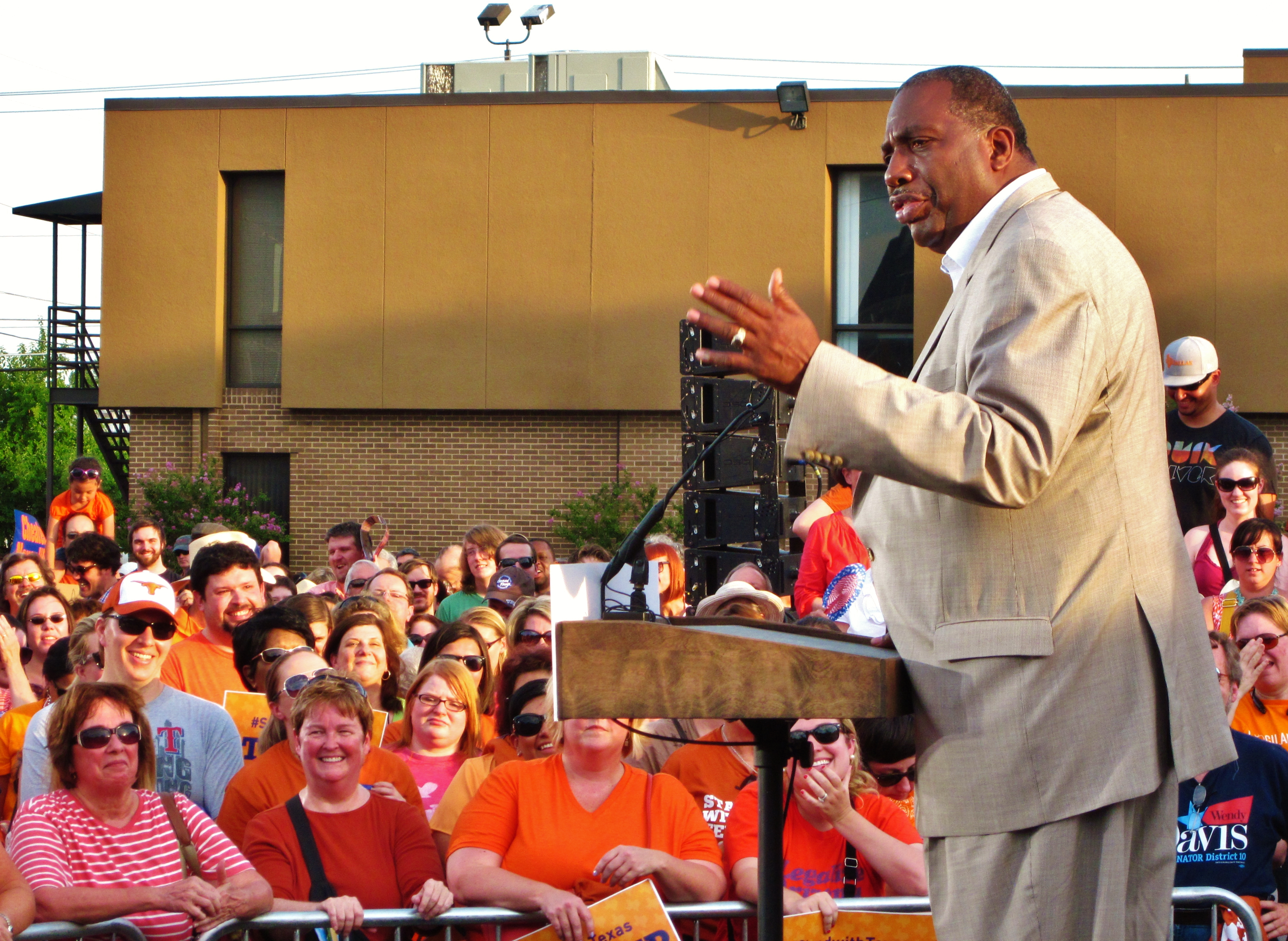 Texas St. Senator Royce West